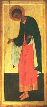 Saint_Demetrius_of_Thessaloniki. The Icon from the Church of Laying Our Lady’s Holy Robe from the village of Borodava near Ferapontov Monastery.